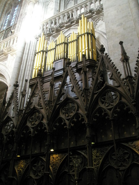 The organ at Winchester Cathedral